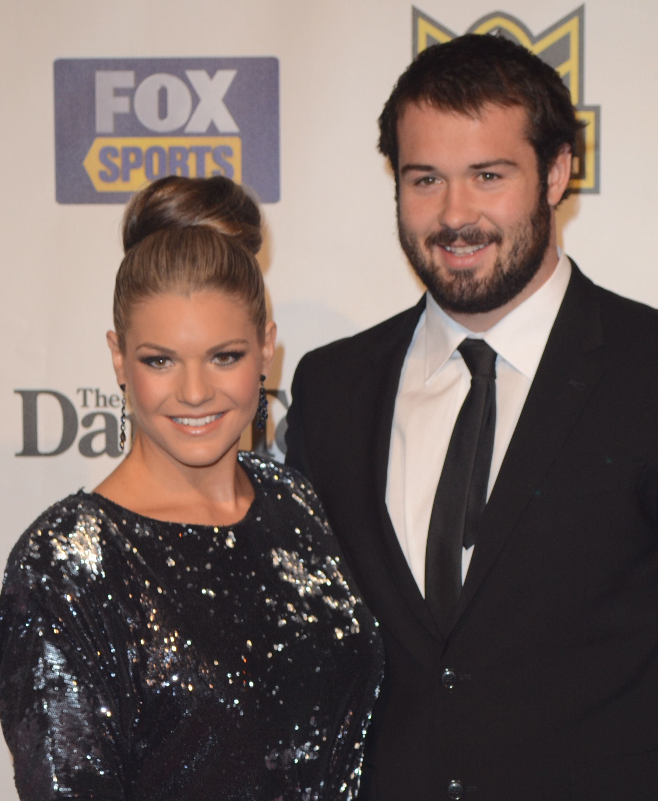 Sarah Callaway & Aaron Woods at the 2012 NRL Dally M Awards.